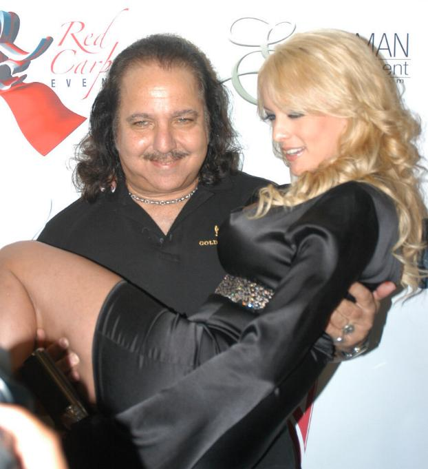 March 10, 2007: Ron Jeremy's Birthday Party A Mob Scene In Hollywood Saturday Night